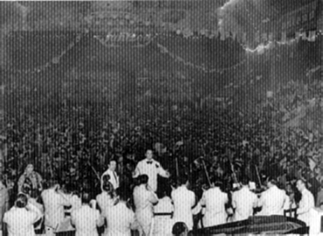 Tangoorchestra plays at carnival in the 30s